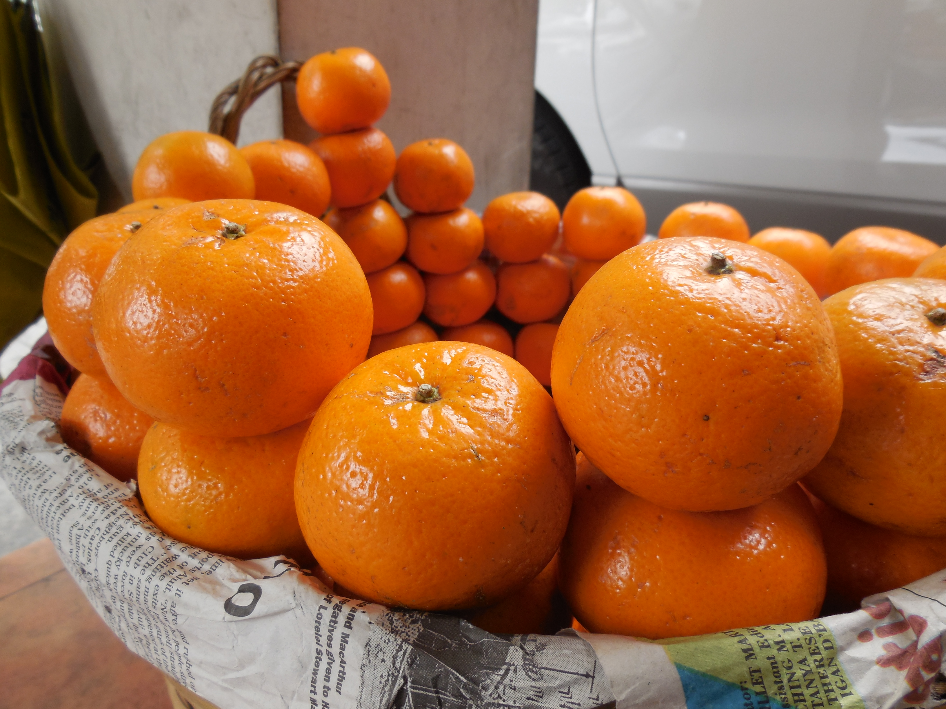 Oranges from Sagada, Mountain Province being sold in La Trinidad City, Benguet.